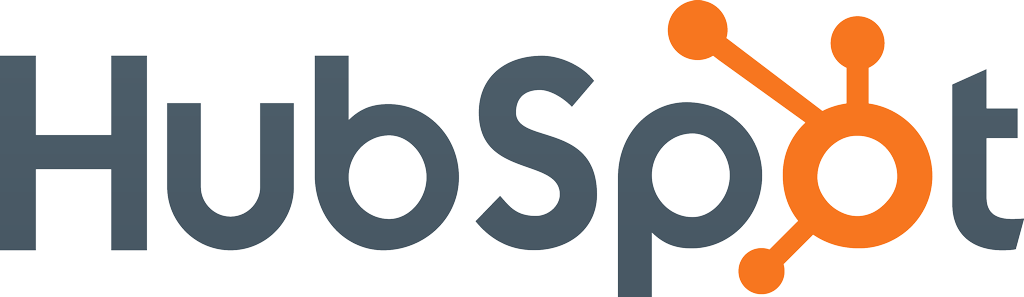 HubSpot Logo